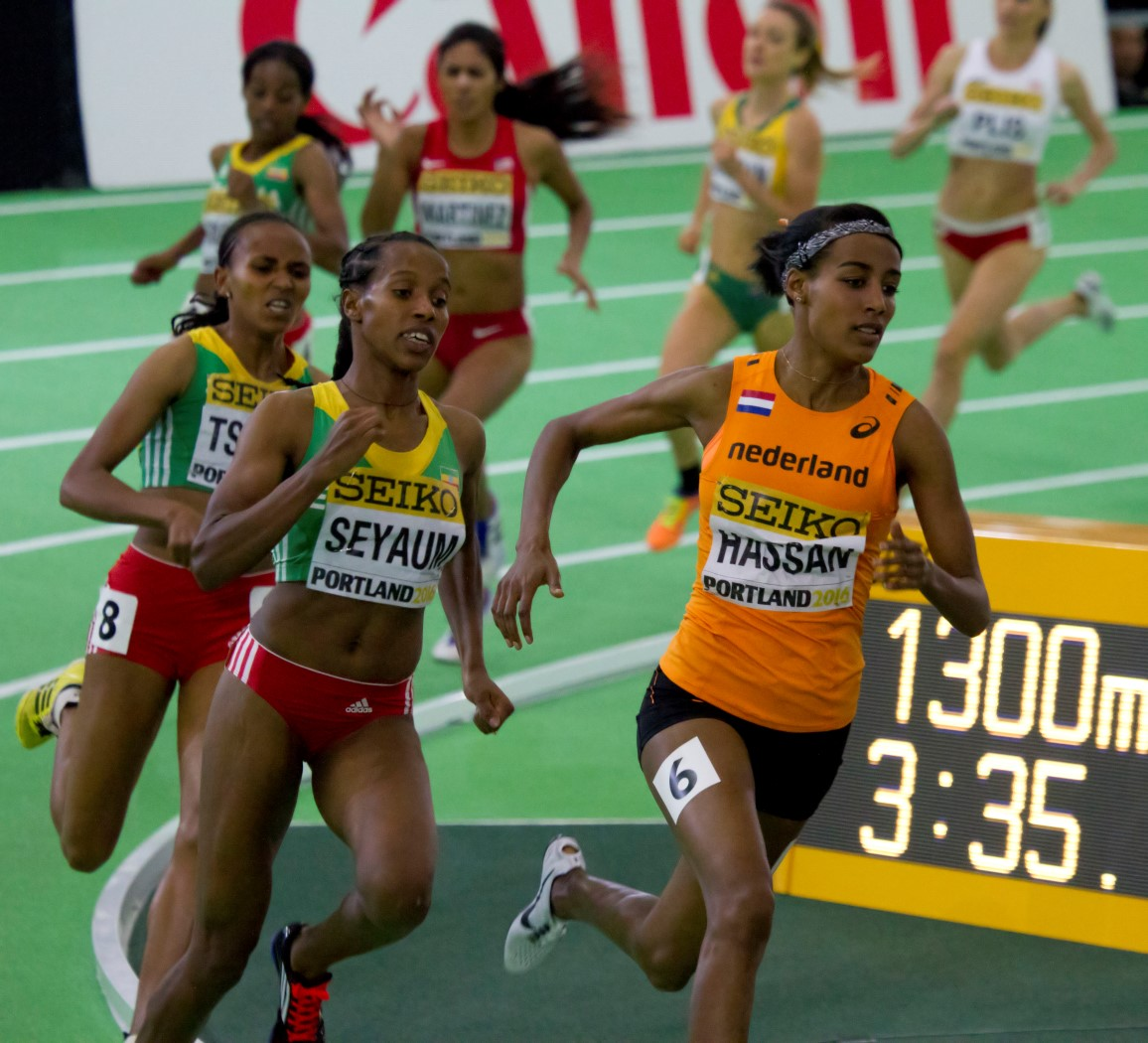 520 finale 1500m hassan